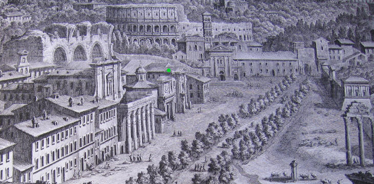 View towards Tempio di Annia Faustina